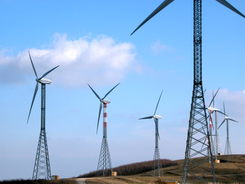 Wind farm, unknown location